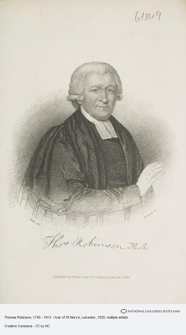 Portrait of Thomas Robinson (1749–1813), English cleric.